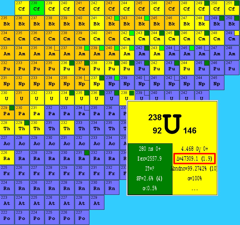 Basic properties of nuclide U-238 (Data source: Nubase 2012, graph: JANIS 4)